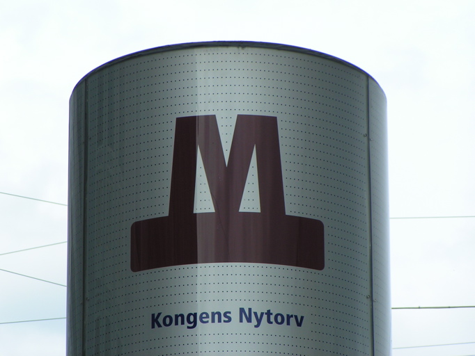 Sign of Copenhagen's metro station "Kongens Nytorv"